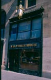 Fifth Ave view of A La Vieille Russie